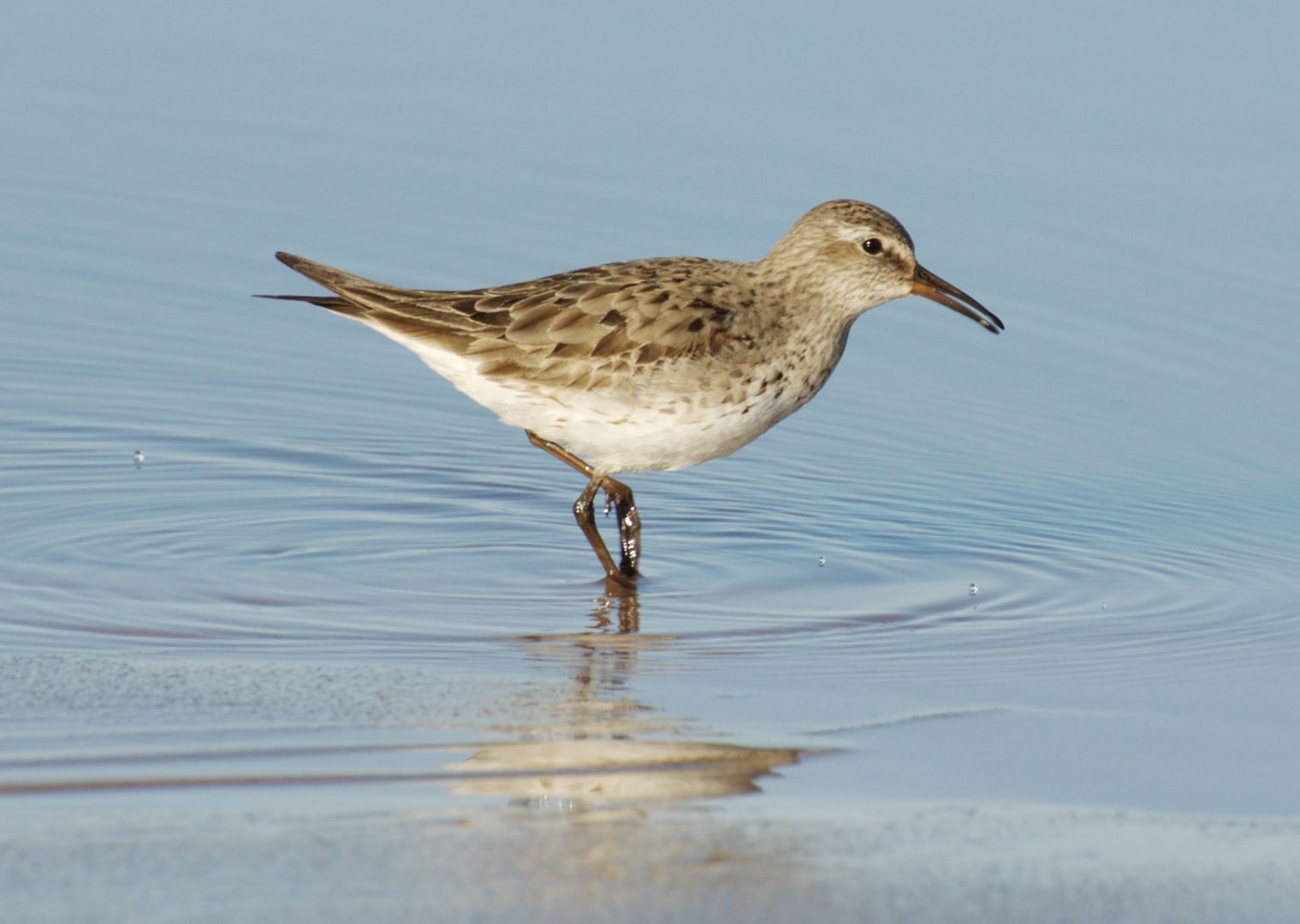 Calidris_fuscicollis_PLAYERO RABADILLA BLANCA